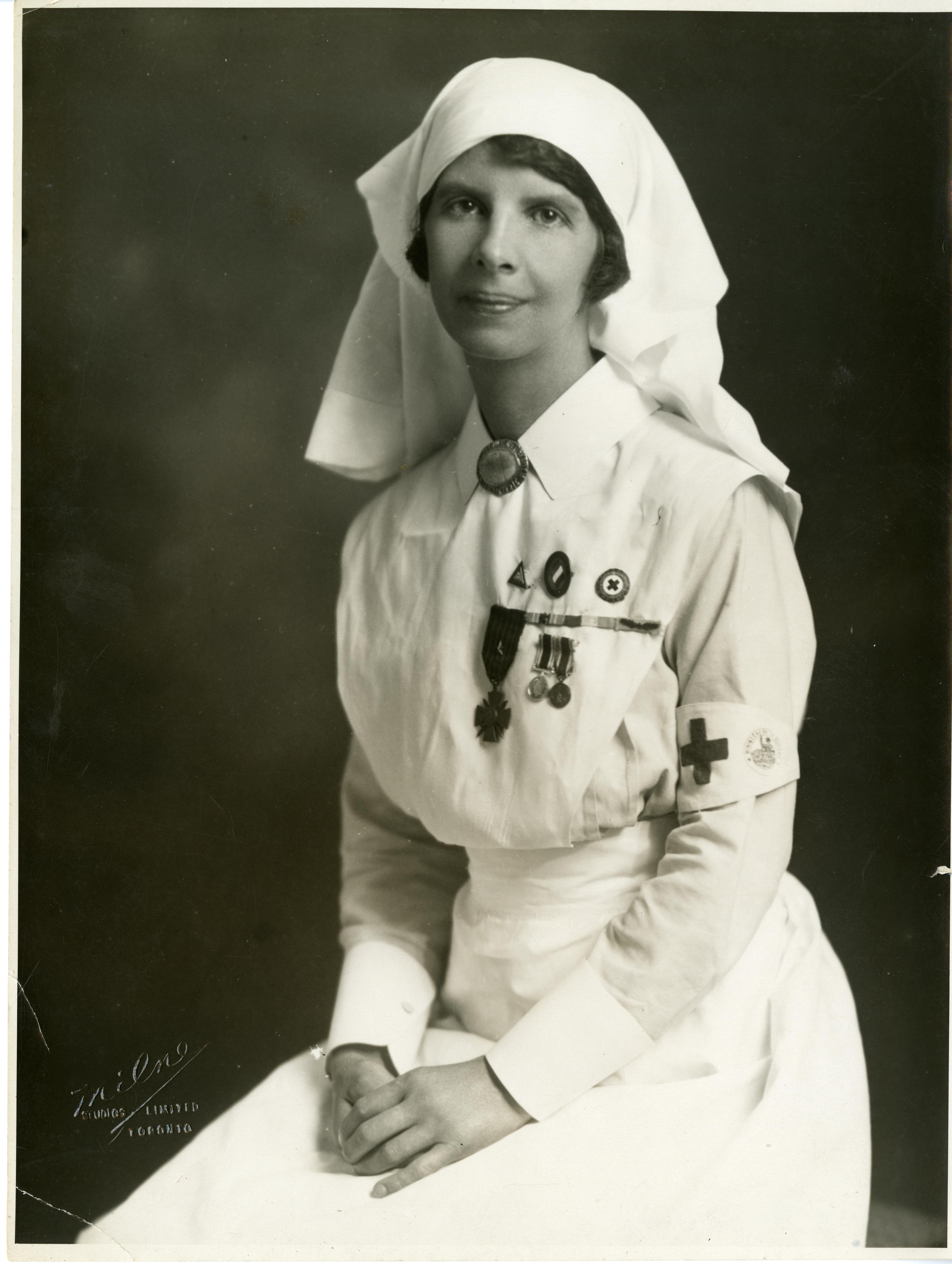 Formal portrait of Madeleine Frances Jaffray in nurses' uniform. Provincial Archives of Alberta, A14050. Note: Madeleine Jaffray volunteered with the French Flag Nursing Corps, Red Cross in 1915 and served in French field hospitals during the World War I. In 1917, she was wounded while stationed at Adinkerke, Belgium during German bombardment, resulting in the amputation of her leg. In recognition of her service, she became the first Canadian woman to be awarded the French Croix de Guerre. From the Madeleine Morrison fonds, PR1986.0054/4.